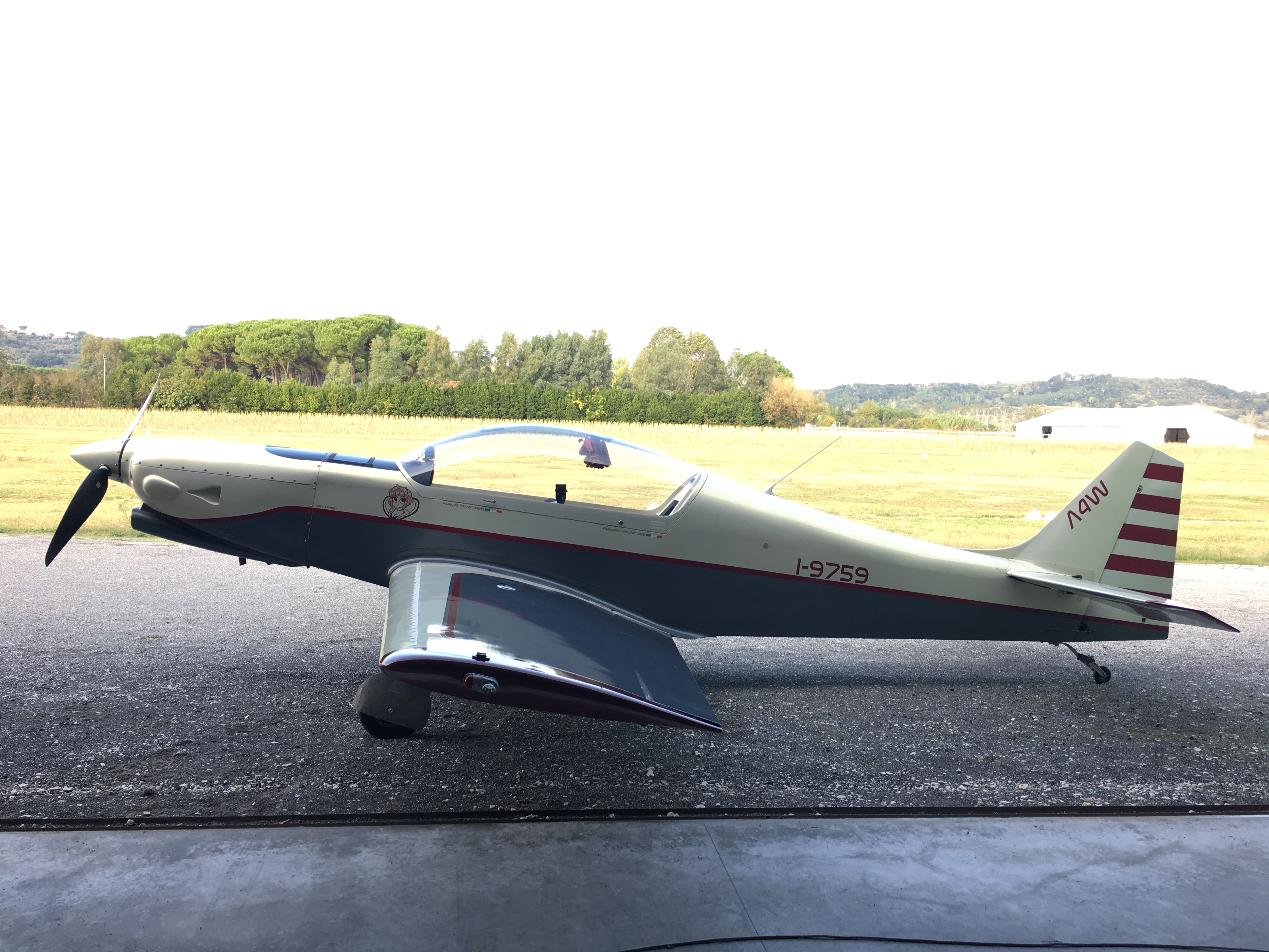 Asso IV Whisky I-9759